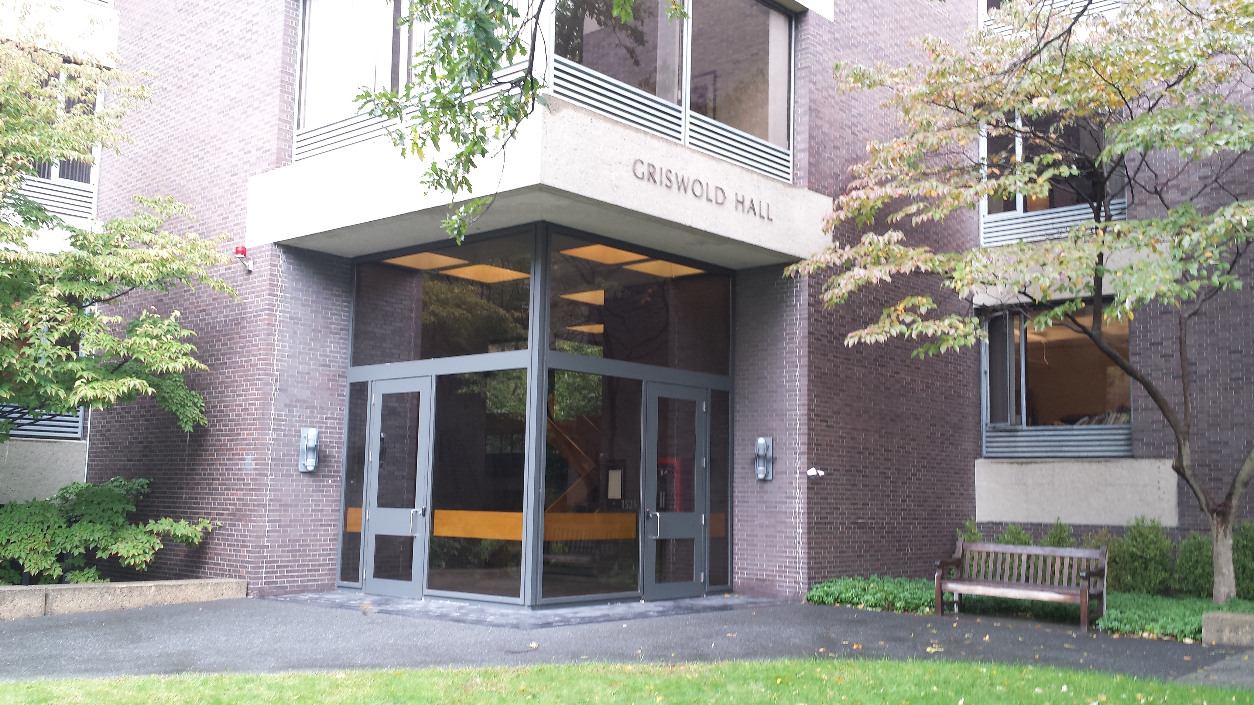 entrance to Griswold Hall